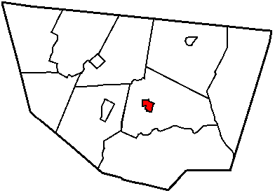 Map of Sullivan County with township and municipal bondaries is taken from US Census website [1] and modified by User:Ruhrfisch in August 2005. My modifications licensed under the GNU Free Documentation License. Source: US Census website [2], modified by User:Ruhrfisch